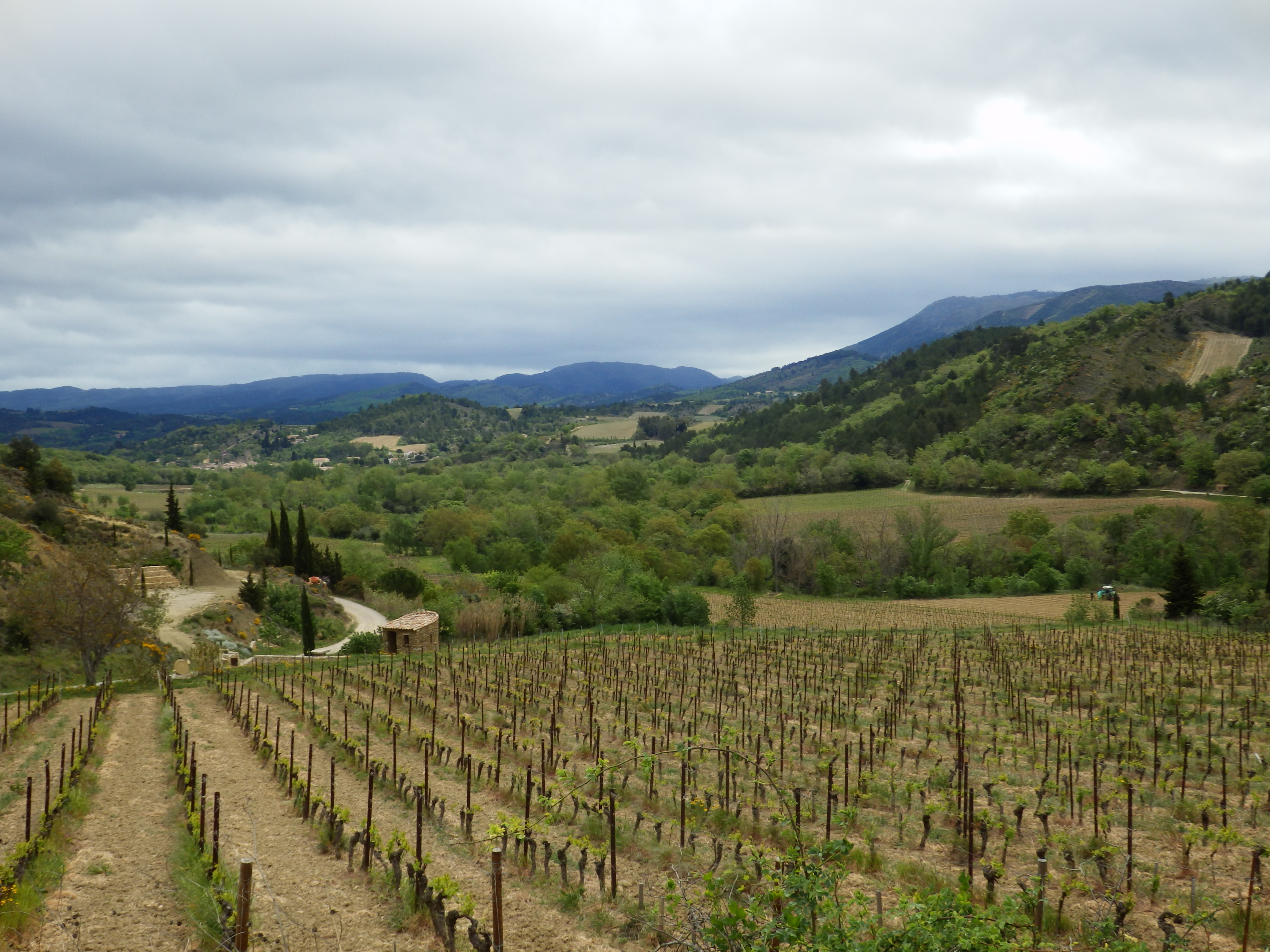 Landscape in Magrie, Aude, France